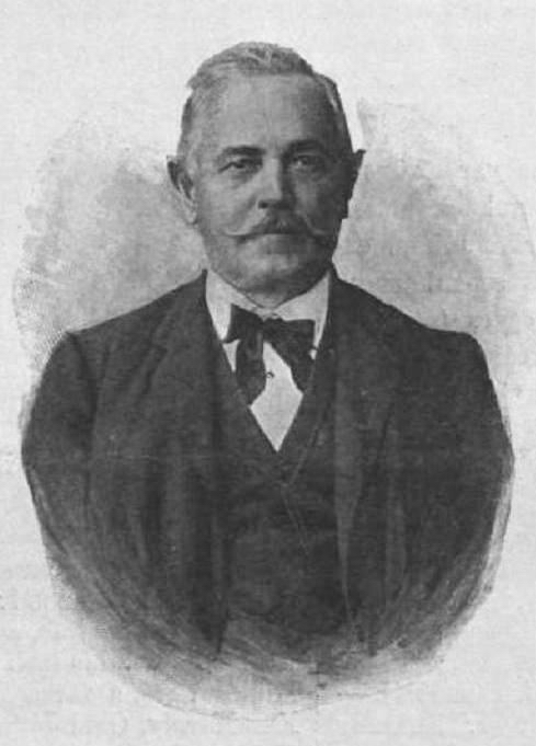 Sándor Baksay